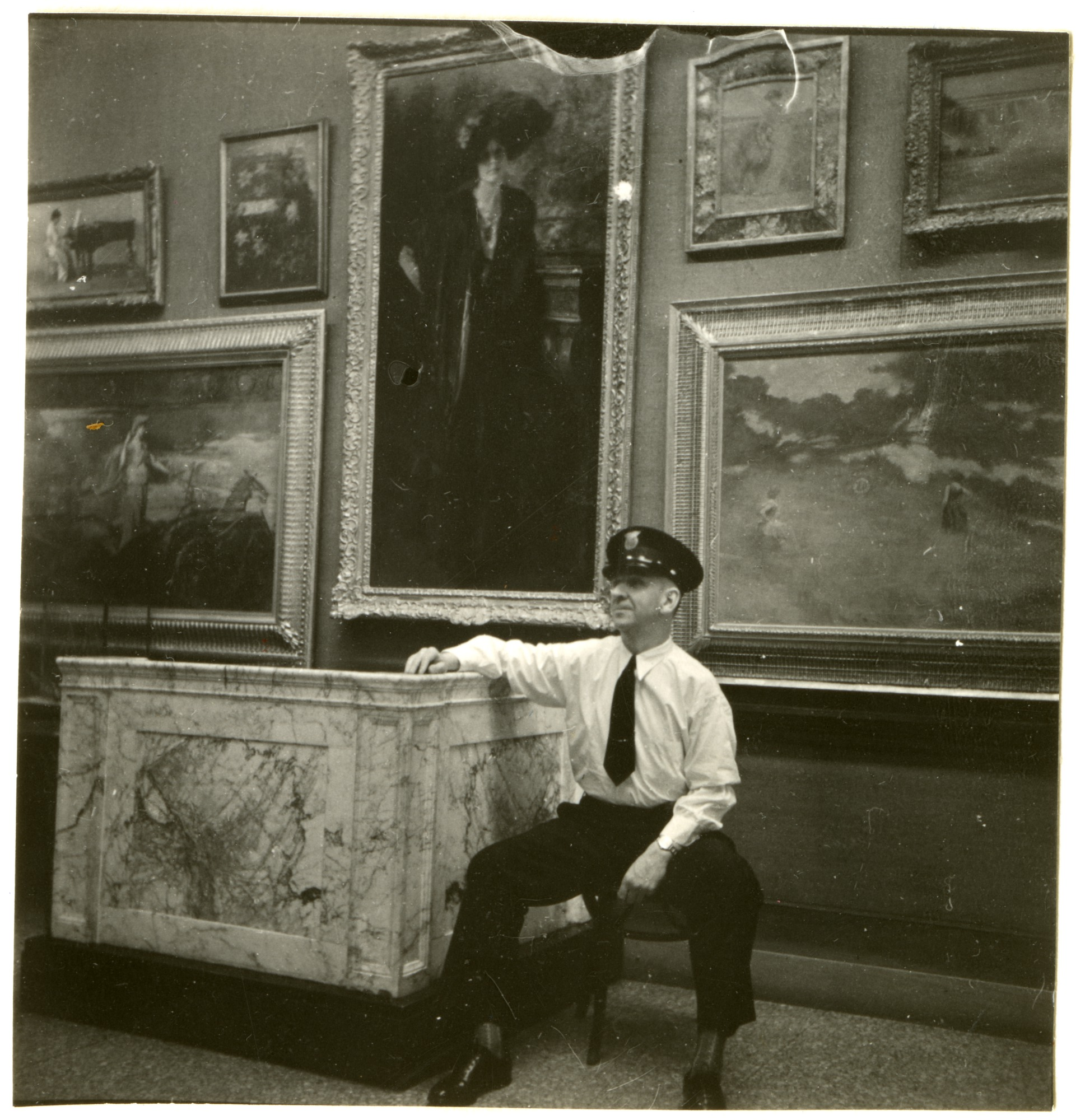 Author: Tolman, Ruel P (Ruel Pardee) b. 1878 Type: Photographic print Person, candid Painting Date: 1935 Topic: Uniforms Men Standard number: SIA2011-0485 and 32070 Physical description: Number of Images: 1 Color: Black and White ; Size: 2.25w x 2.25h ; Type of Image: Person, Candid ; Medium: Photographic print Category: Historic Images of the Smithsonian Notes: The image was taken by Ruel P. Tolman, Director of Smithsonian National Collection of Fine Arts, and is included in a scrapbook of photographs of Smithsonian staff, grounds and buildings, exhibitions, and Washington, D.C. scenes (Section C) Summary: Image of Mr. Richard R. Chaney sitting in a chair in front of a wall full of paintings. Chaney is wearing a guards uniform Persistent URL: Link to data base record Repository:Smithsonian Archives - History Div View more collections from the Smithsonian Institution.